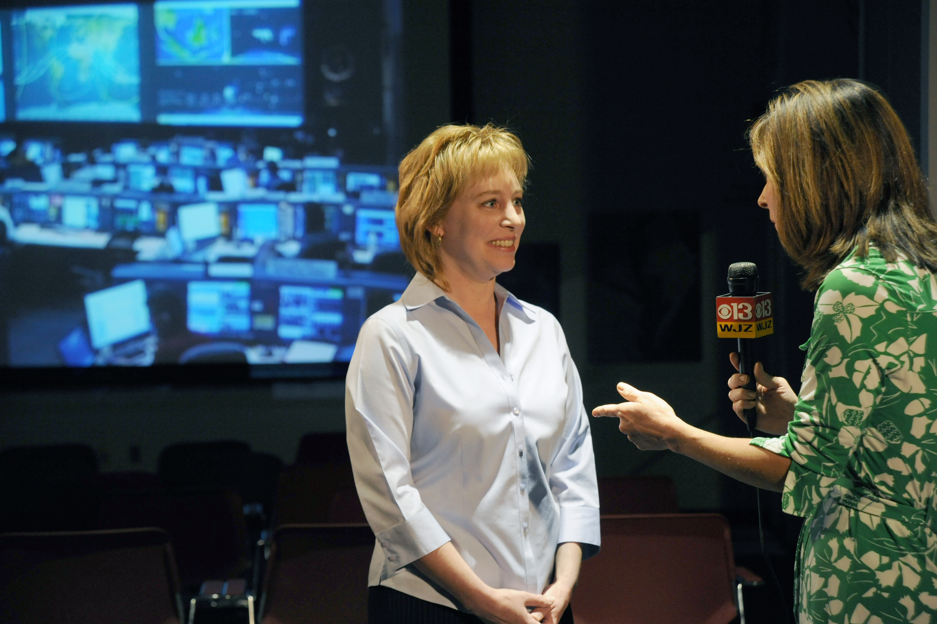 Goddard astrophysicist Dr. Kim Weaver talks to a reporter from WJZ-TV during STS-125 EVA activities at the Goddard visitor center. Credit: NASA/Debbie McCallum